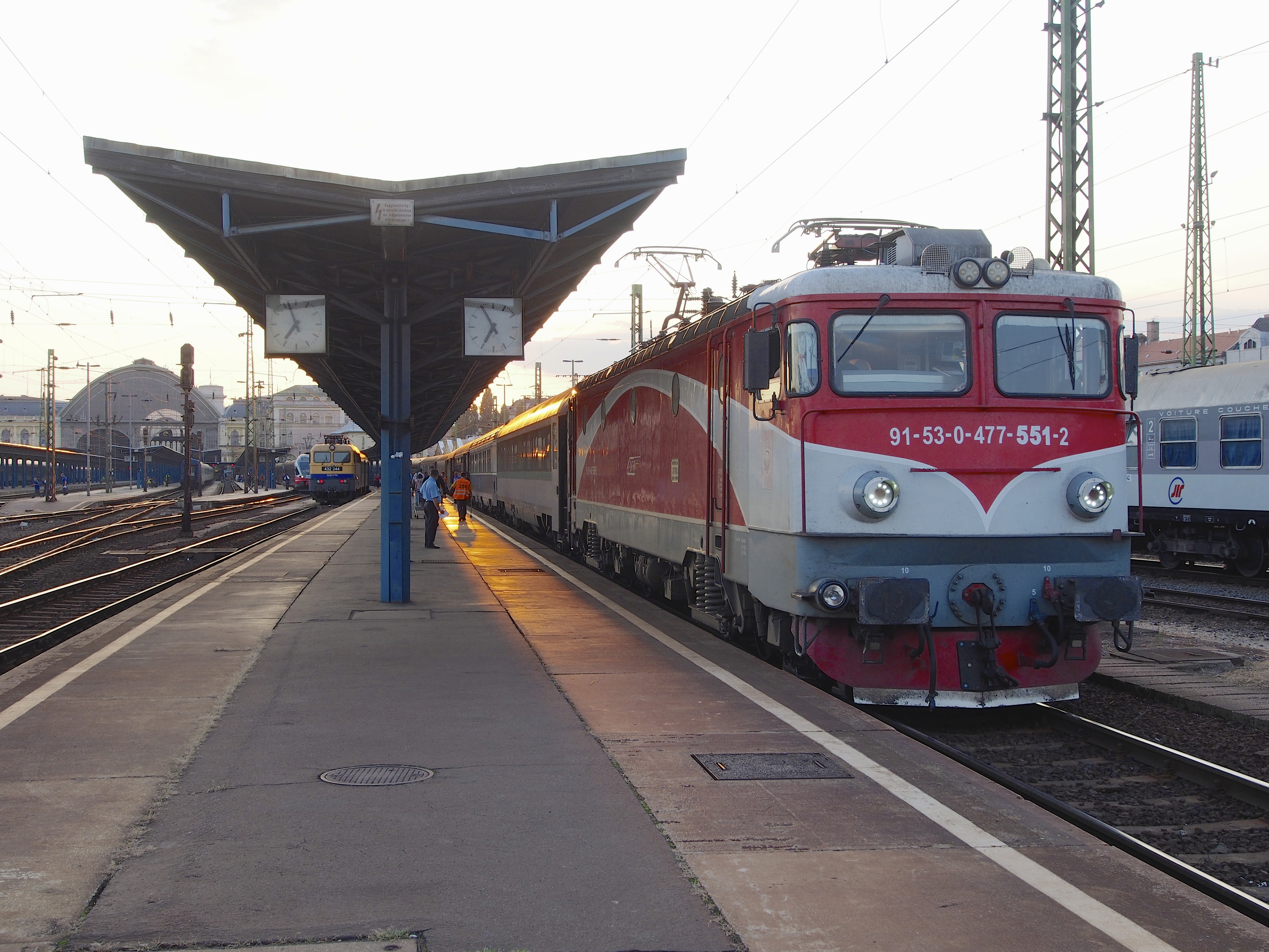 The Ister is a EuroNight service between Budapest and Bucharest. Budapest Keketi Station